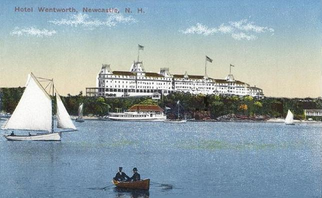 The Hotel Wentworth (Wentworth-by-the-Sea), New Castle, New Hampshire; from a c. 1920 reprint of a 1906 postcard originally published by G. W. Morris, Portland, Maine.